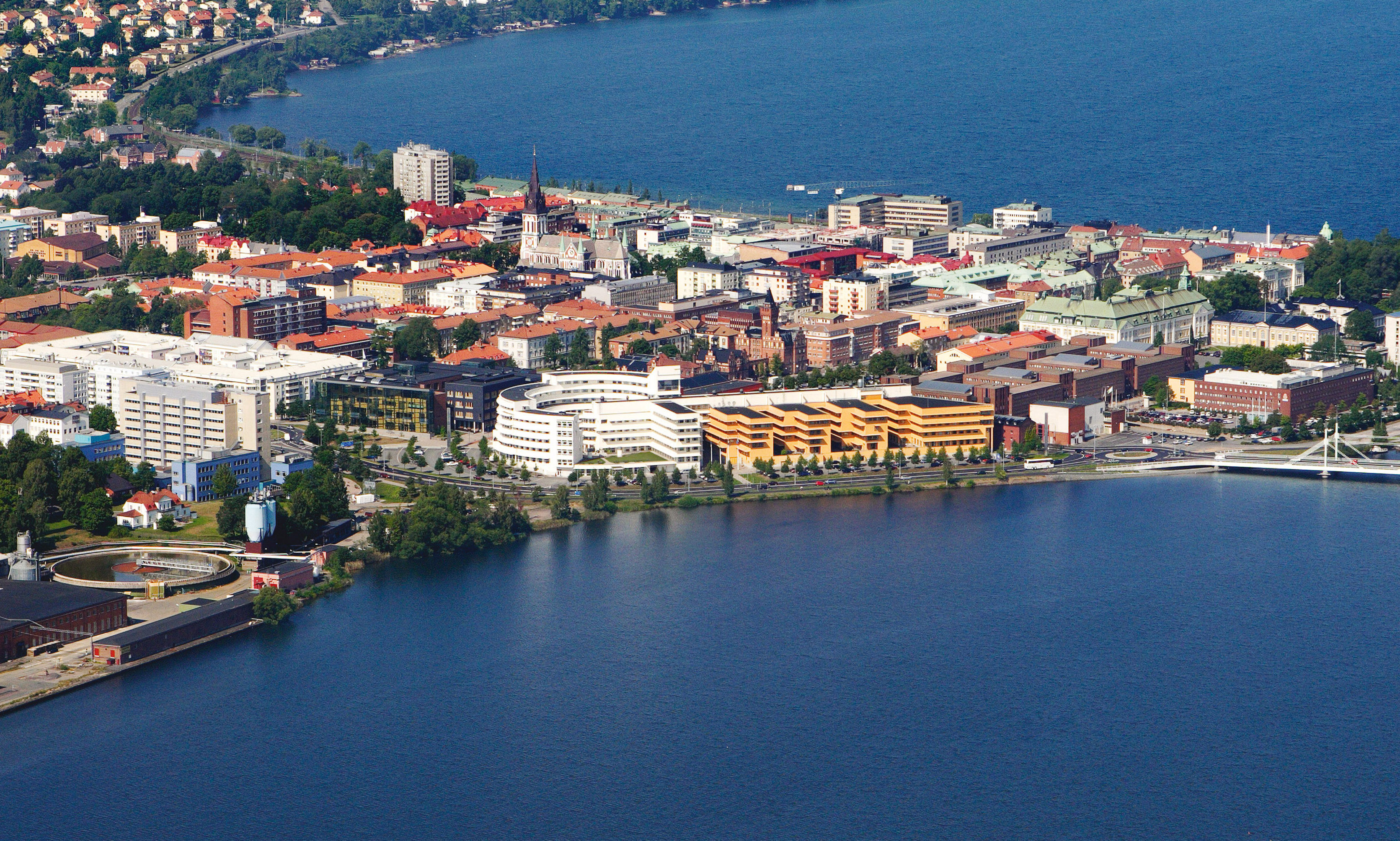 Aerial view of Jönköping University, Sweden.